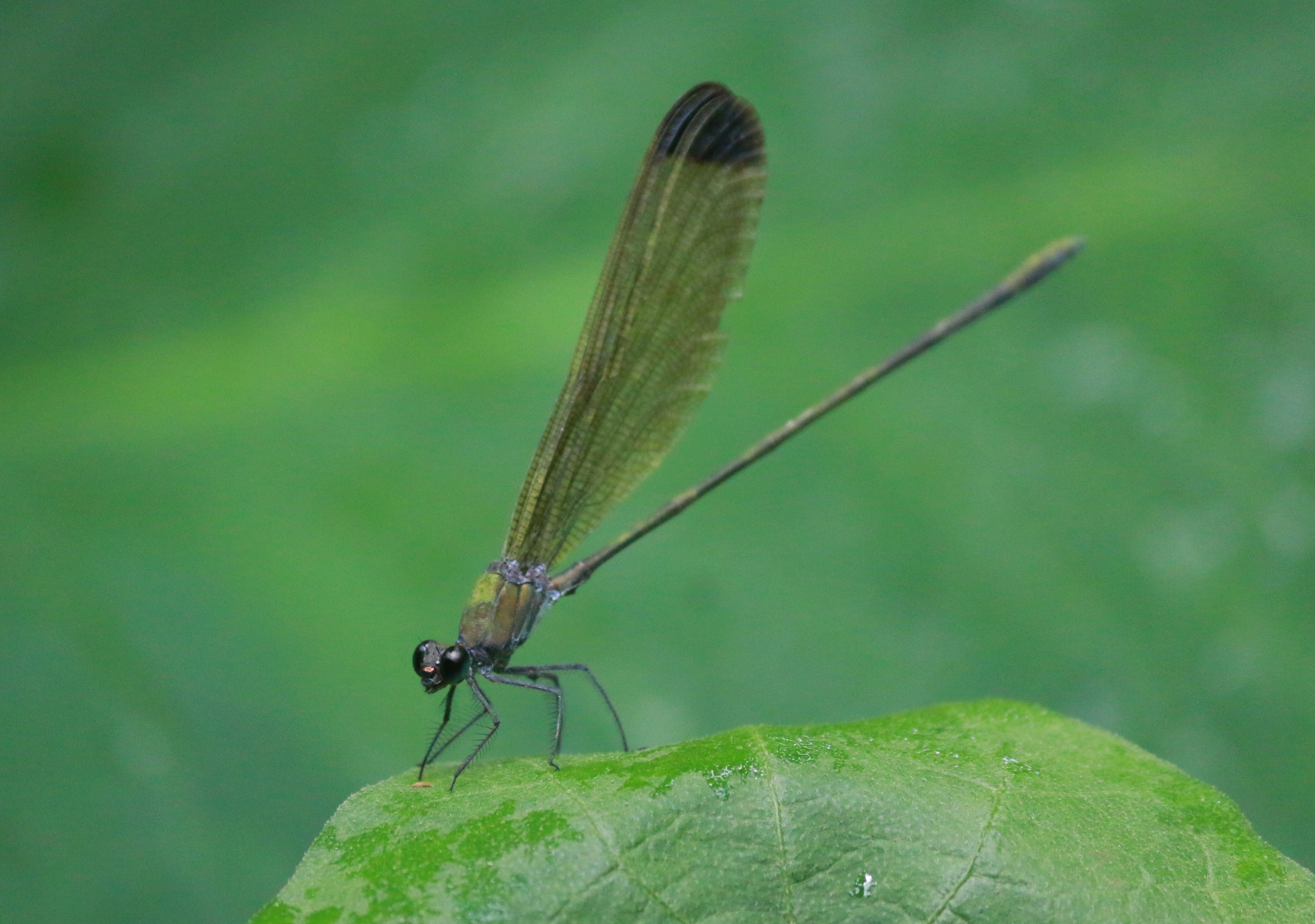 black-tipped forest glory,Vestalis apicalis